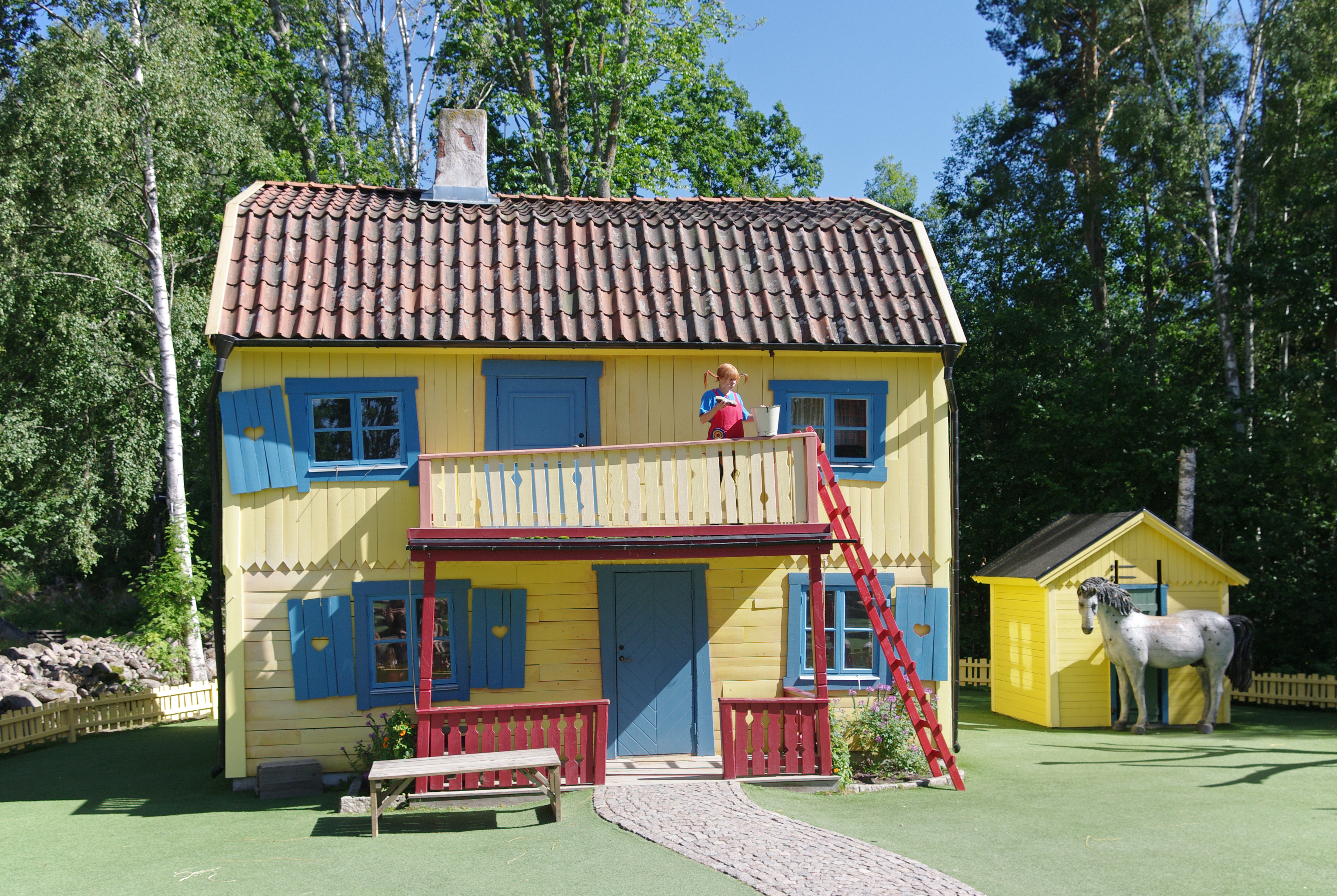 Villa Villekulla and Pippi Långstrump in Astrid Lindgrens värld